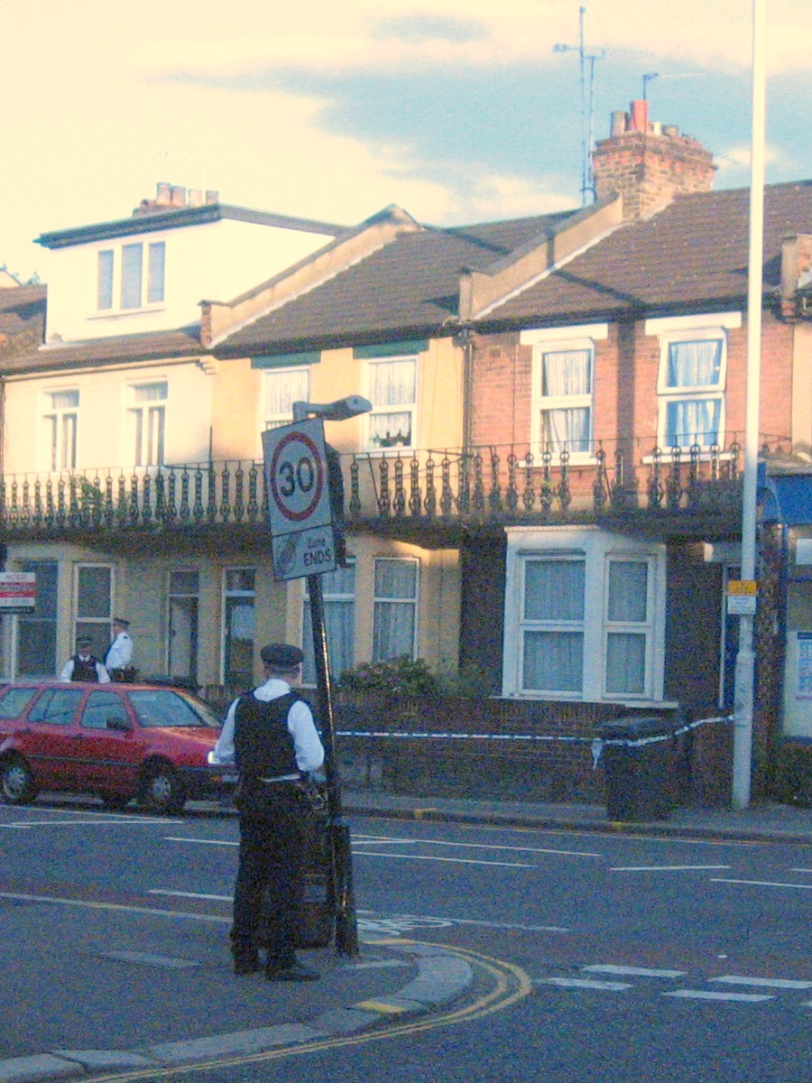 Scene of a police raid on Forest Road, Walthamstow, London, near the corner of Brookdale Road, 10 August 2006. This is a section out of a larger photograph and the colours have been corrected.